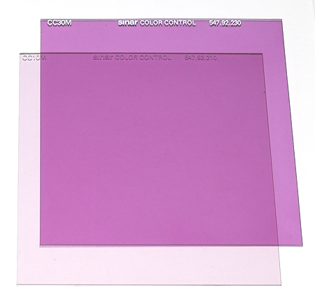 Filtres de correction magenta 30 et magenta 10